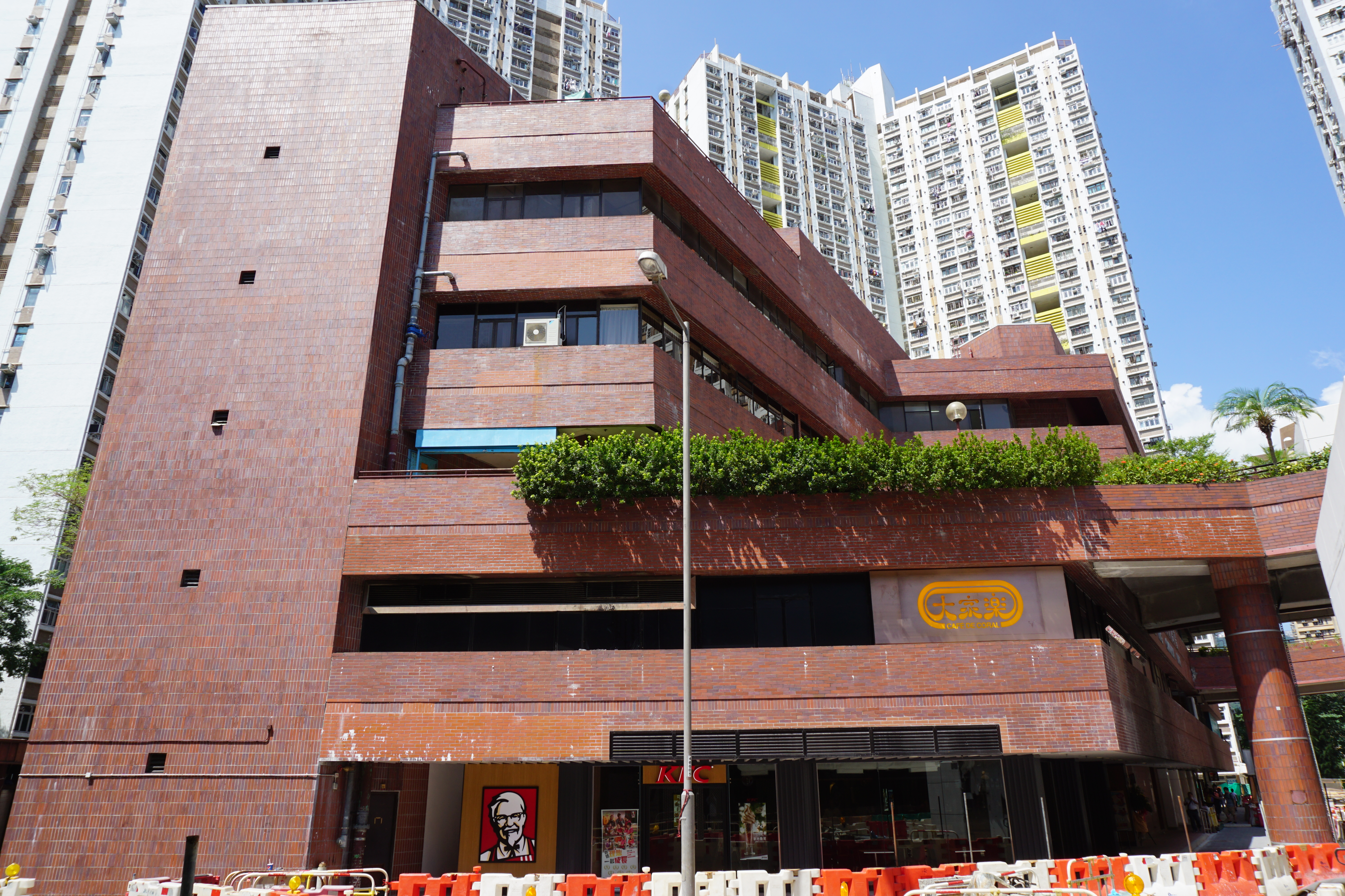 Lei Tung Commercial Centre in Ap Lei Chau, Hong Kong.